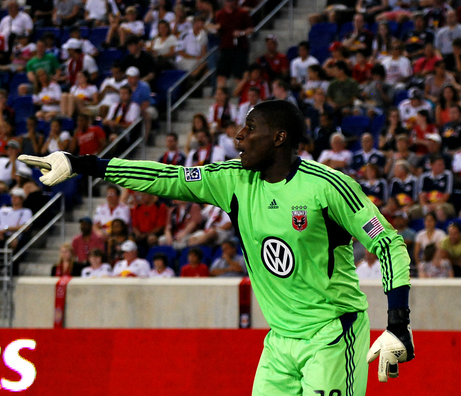 D.C. United soccer player Bill Hamid during a match against the New York Red Bulls at Red Bull Arena in Harrison, New Jersey.